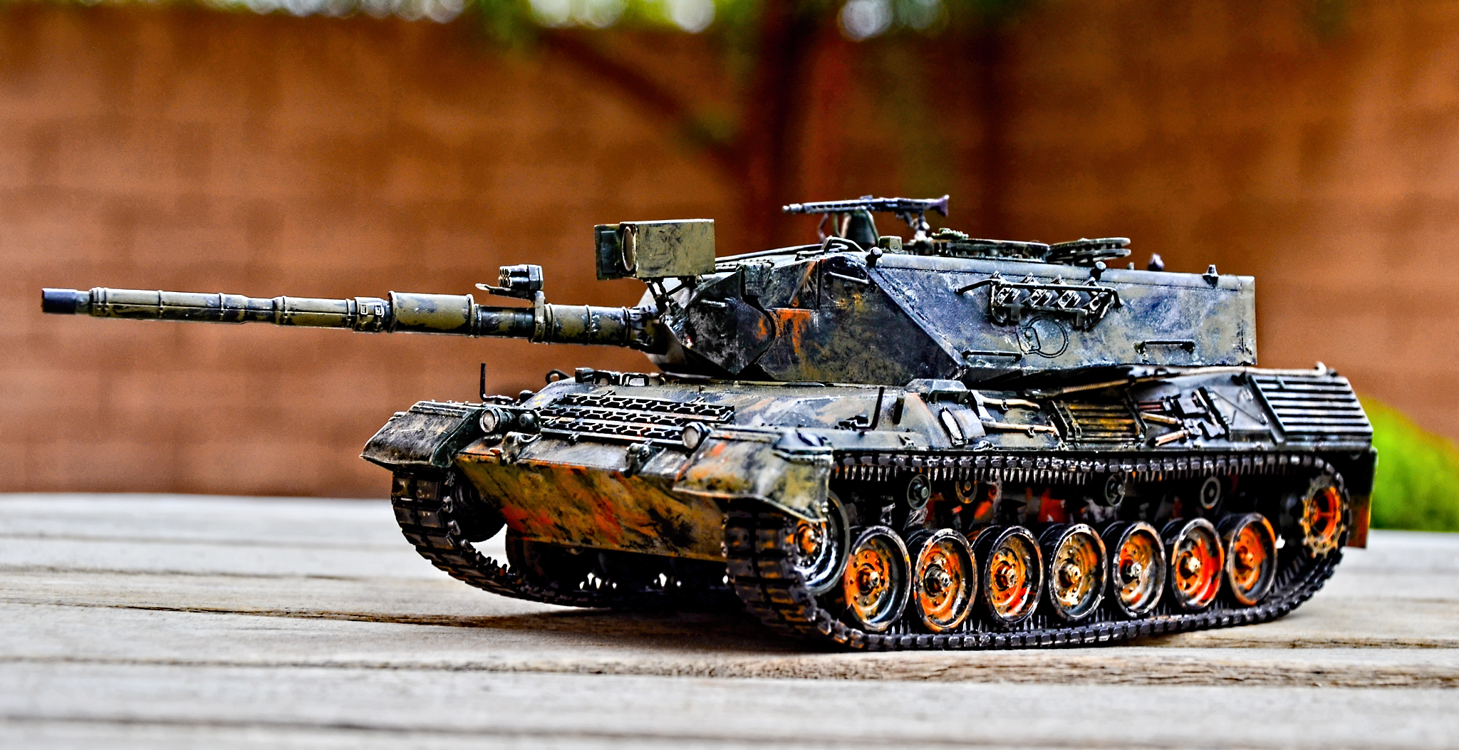 TDelCoro